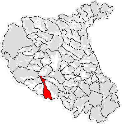 Map with limits of commune